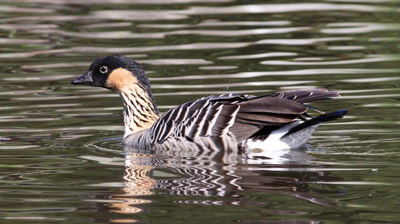 Hawaiian Goose (Branta sandvicensis)